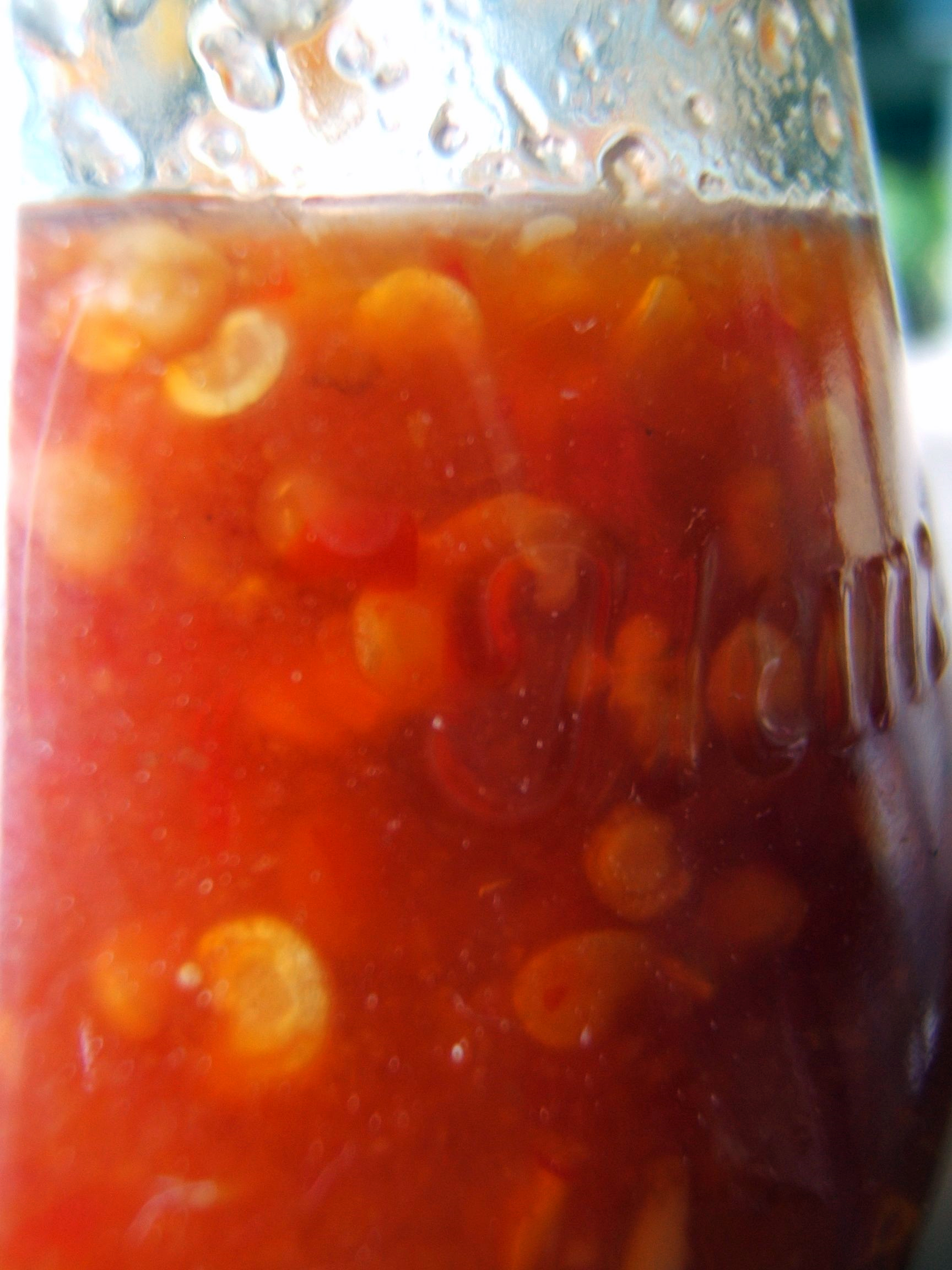 Used